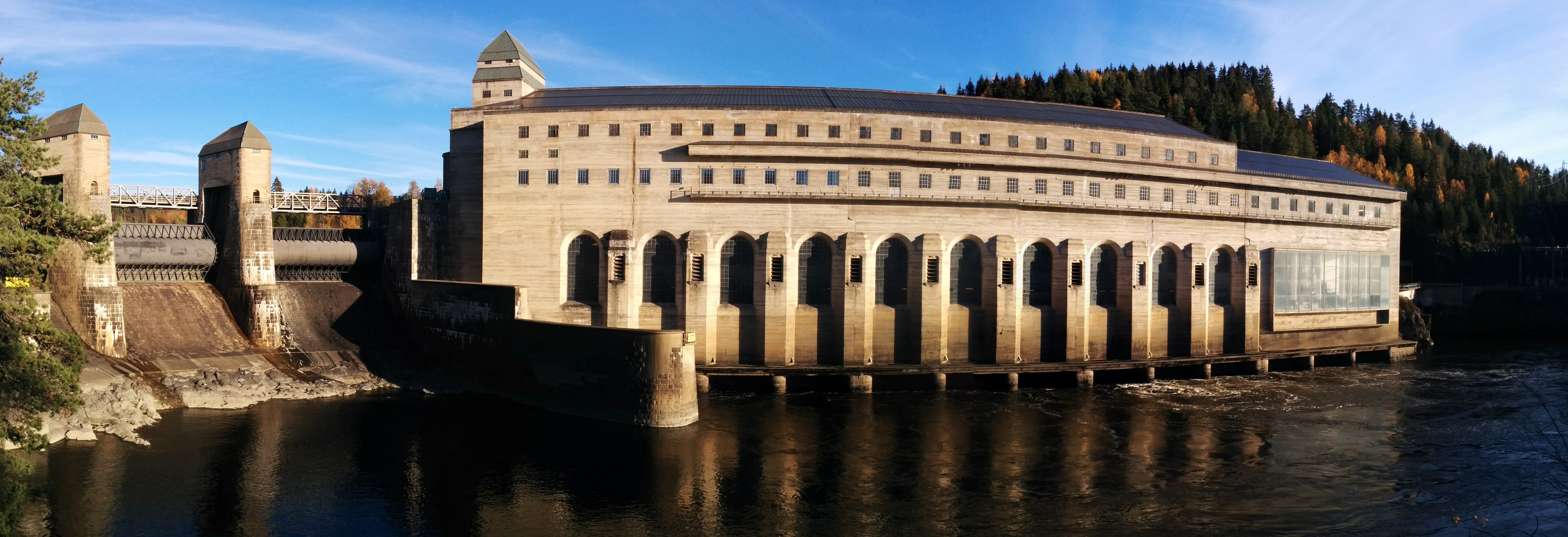 Panorama from the west shore down the river